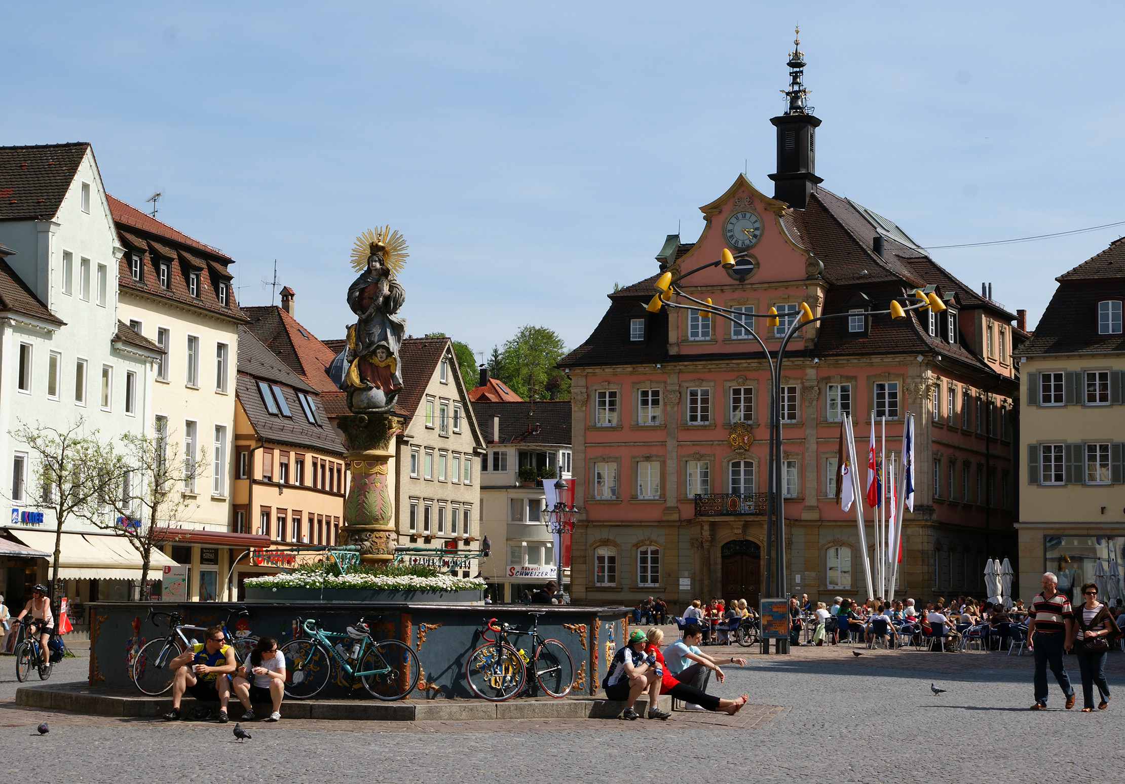 People, fountain, and cafes in the Marktplatz. 25 April 2009. Foto by William Schlemmer.